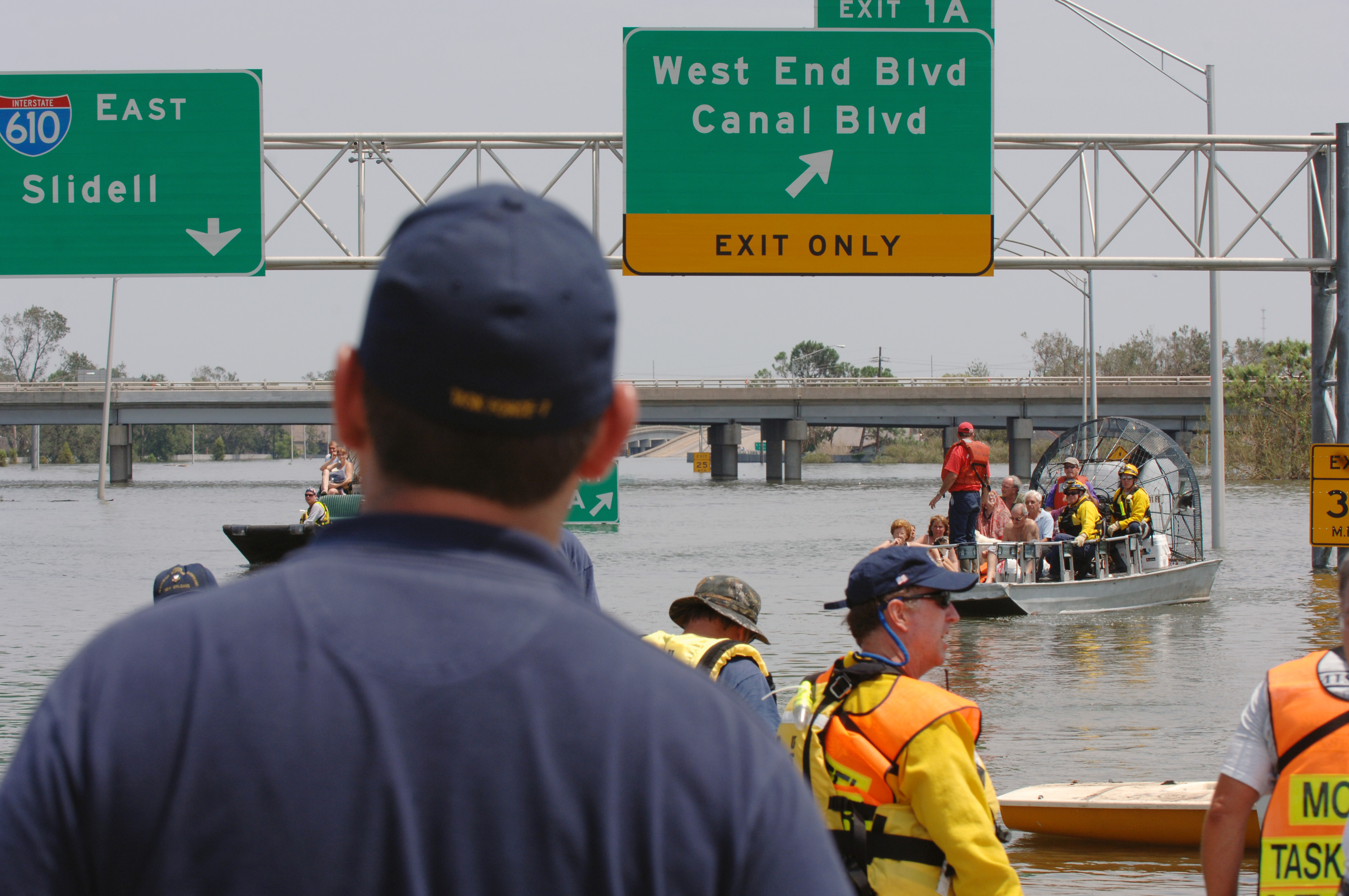 New Orleans, LA, August 30, 2005 -- An Urban Search and Rescue Team brings victims of the flood waters of New Orleans to dry land by boat. New Orleans was evacuated following the breaks in the levees as a result of hurricane Katrina and this area is being used as a staging area for rescue operations. Jocelyn Augustino/FEMA